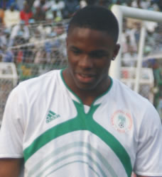 Photo taken of Victor Anichebe at Nigera